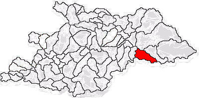 Map of Săcel commune in Maramures County